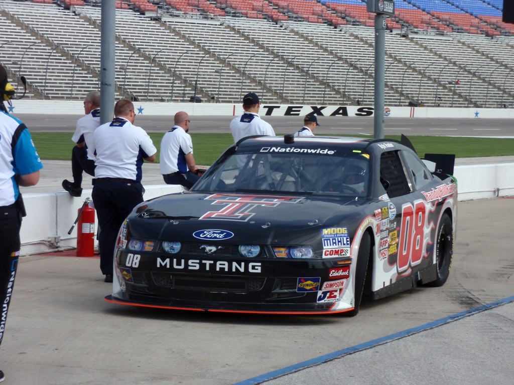 Kyle Fowler's No. 08 Ford in the garage area during practice for the 2012 O'Reilly Auto Parts 300 at Texas Motor Speedway